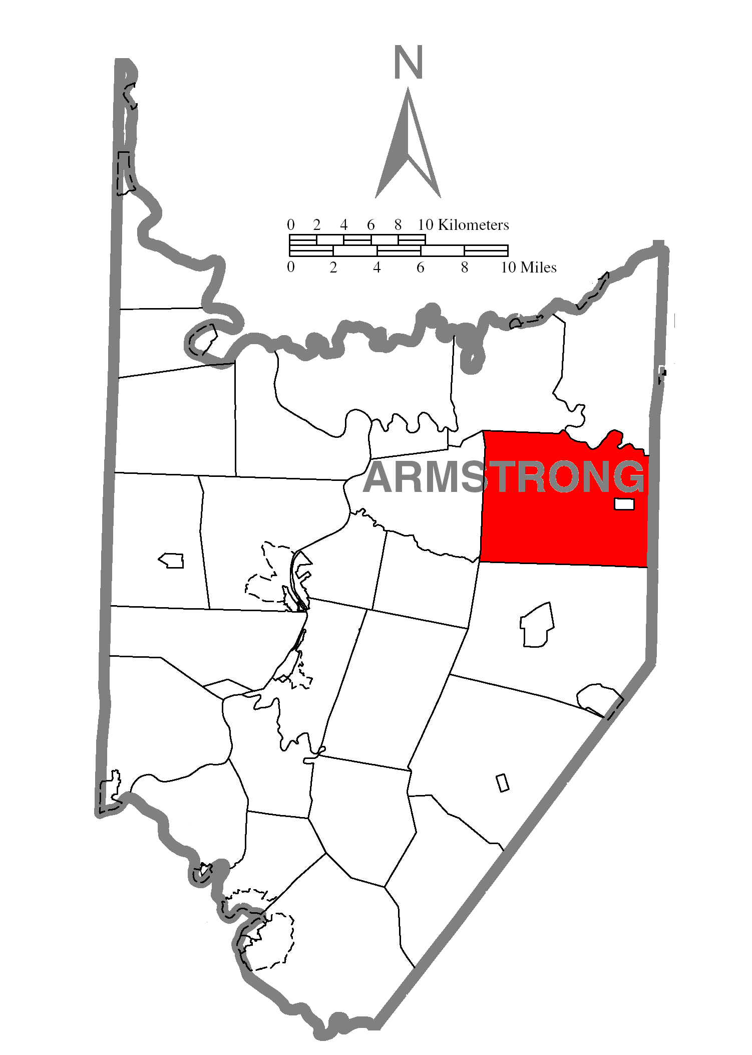 A map of Armstrong County showing Wayne Township, Pennsylvania (alternate) highlighted on the map.